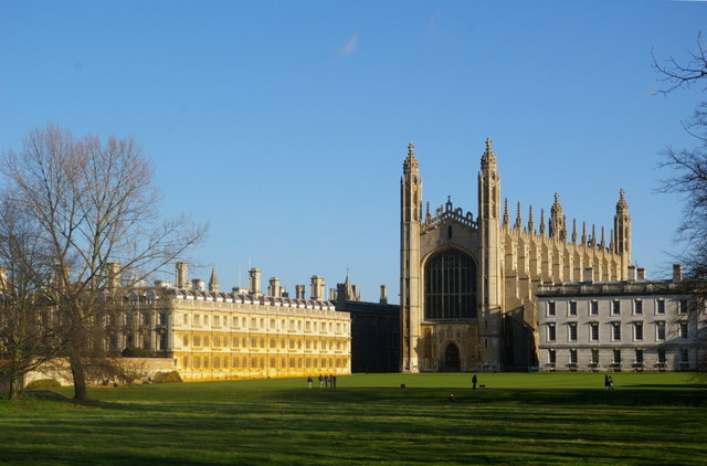 King's College Chapel The classic scene across the Backs, taken from Queens' Road.